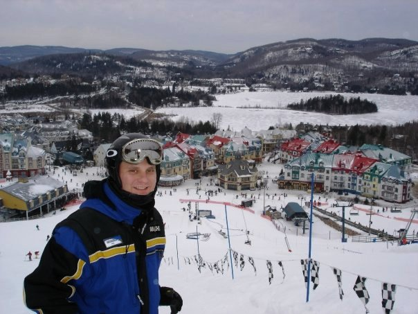 Skiier with Mont-Tremblant Village in background